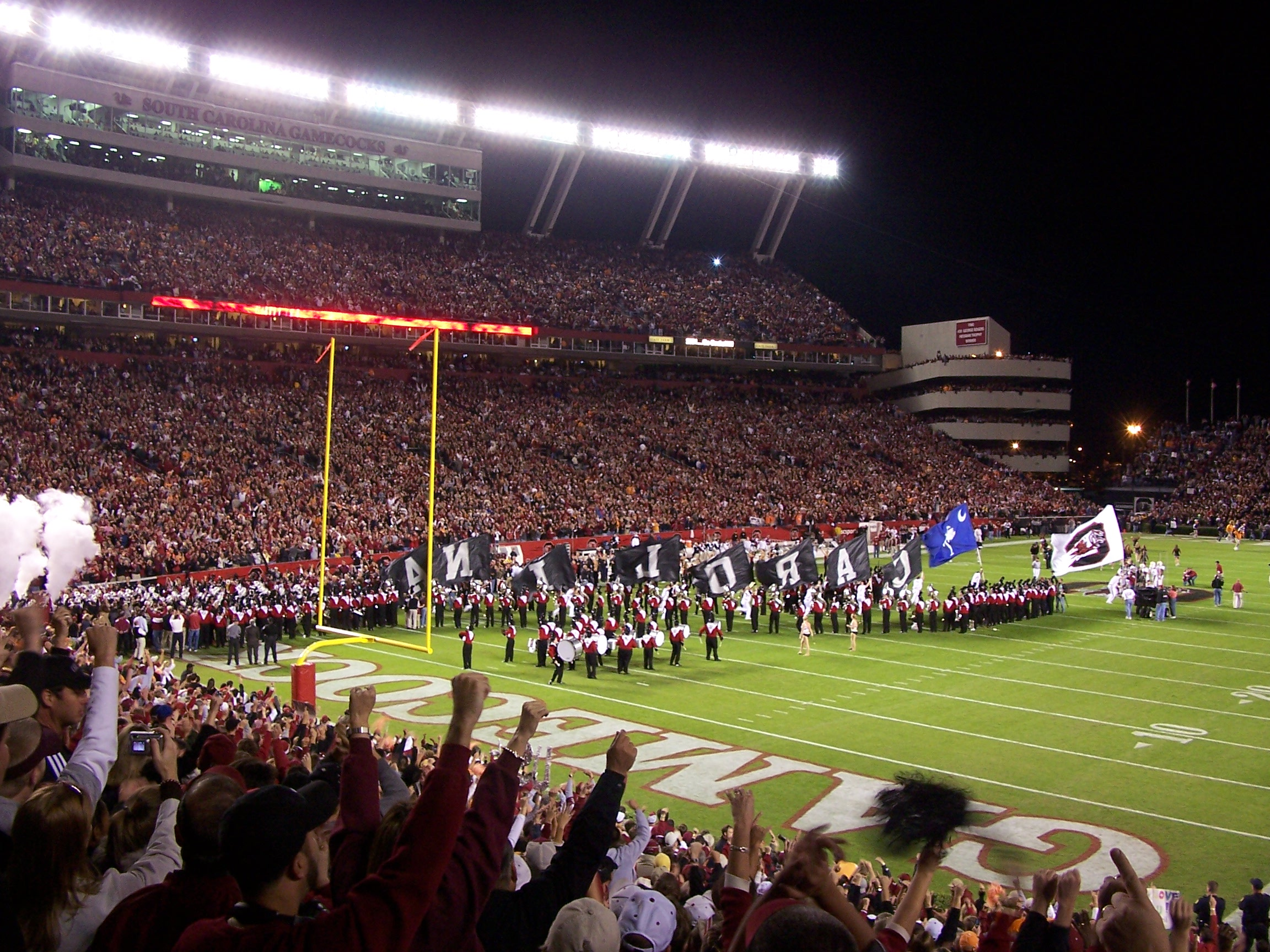 I took this picture myself as the Gamecocks took the field against Tennessee on Oct. 28, 2006. The Gamecocks are coming out to their pregame entrance, "2001", which The Sporting News has ranked the best pregame entrance in college football.